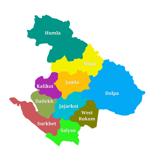 Province No. 6 in English